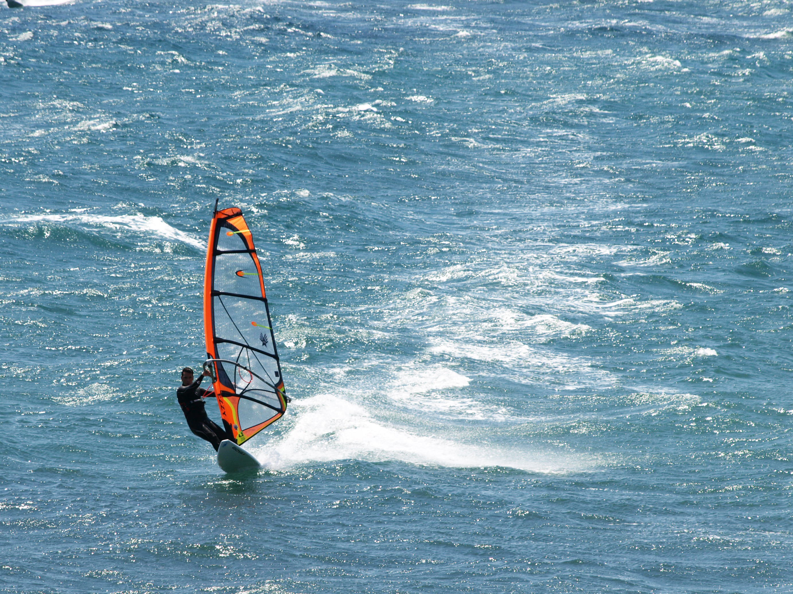 Windsurfing in Pozo Izquierdo Beach